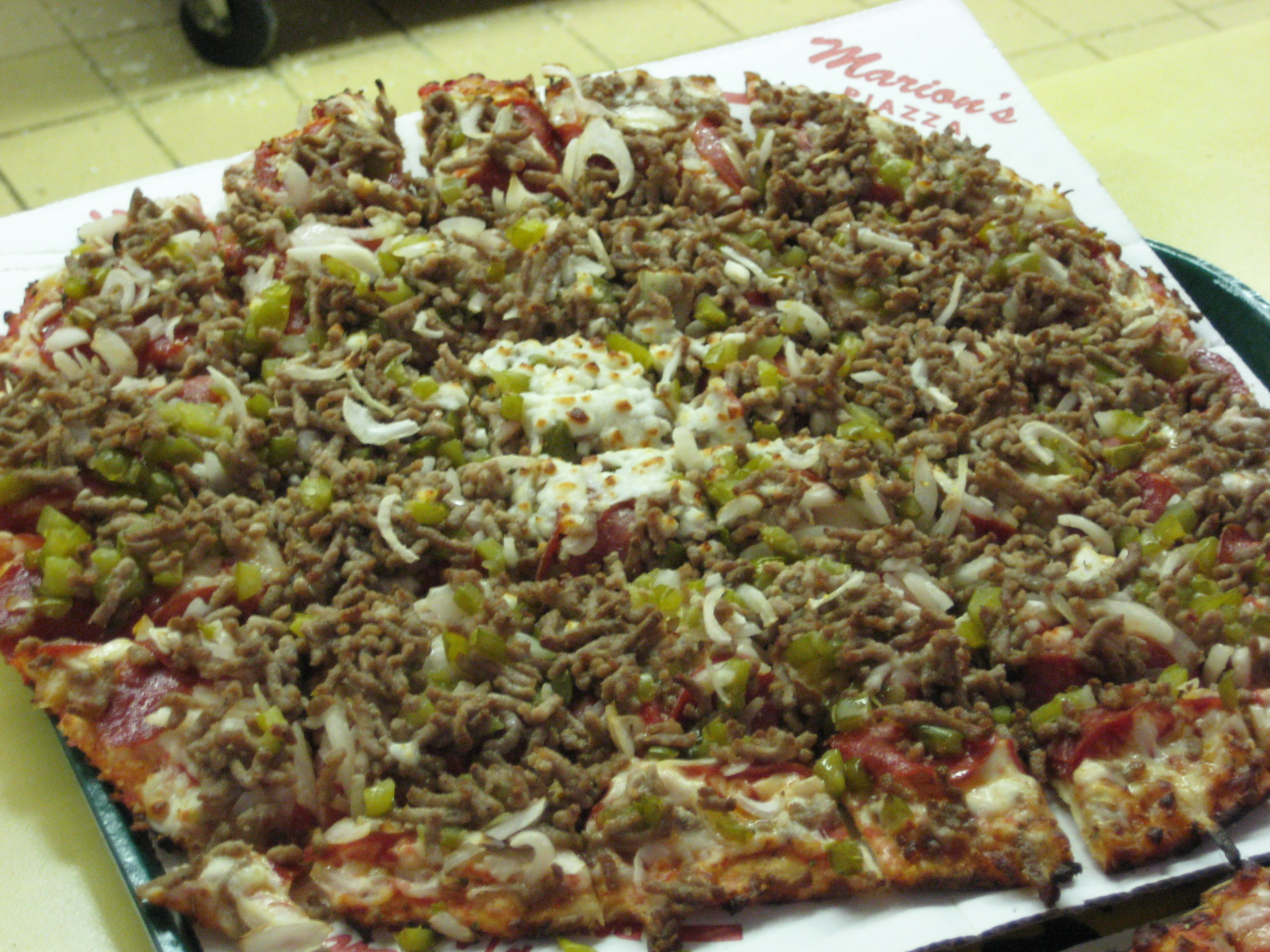 Marion's Piazza supreme pizza